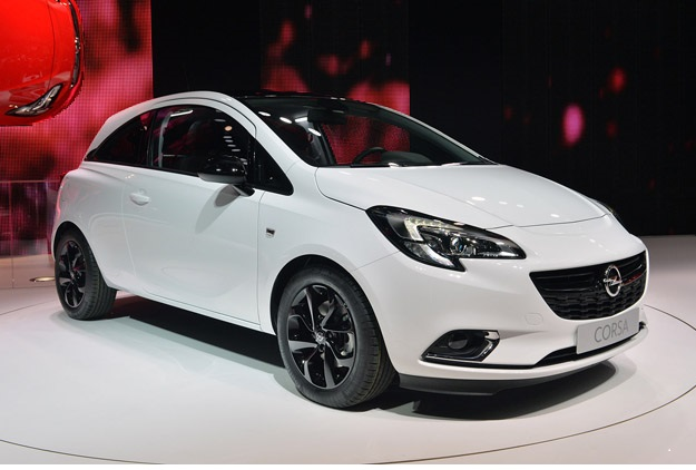 Corsa E